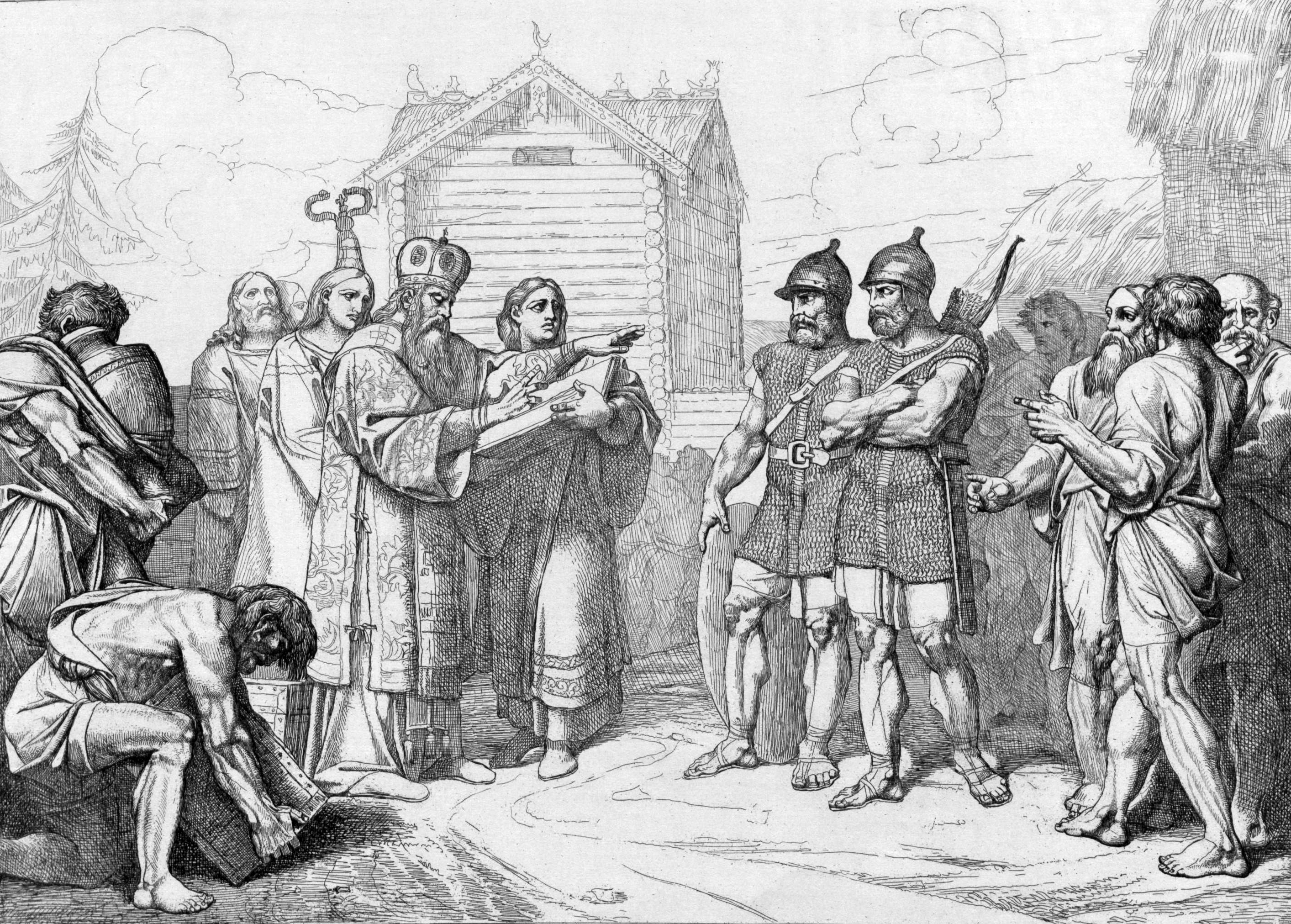 The Arrival of Bysantine Bishop in Kievan Rus'